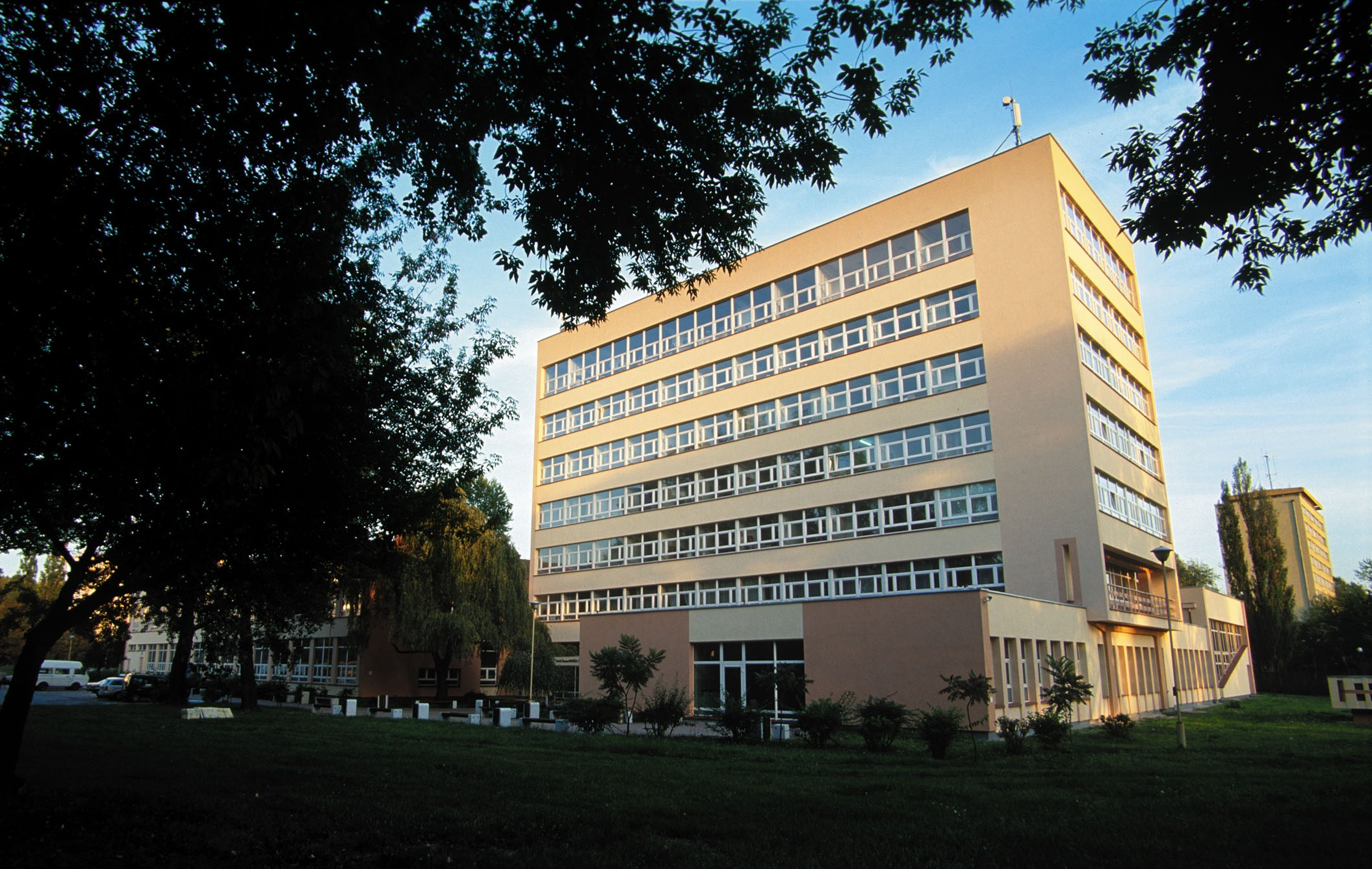 Faculty of Chemical and Process Engineering, Warsaw University of Technology